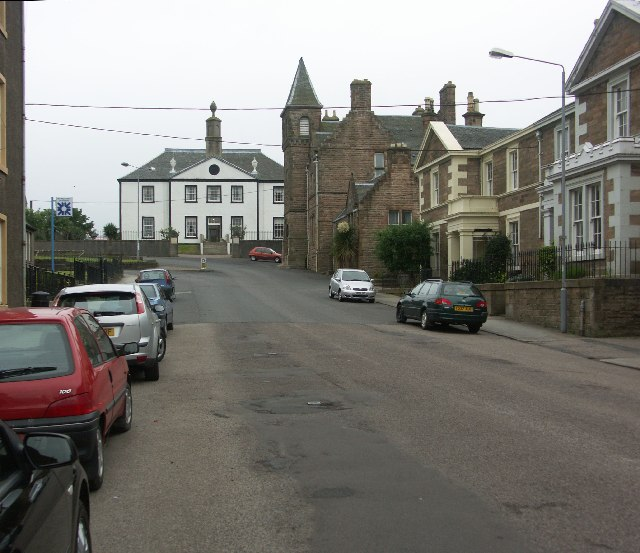 Campbeltown